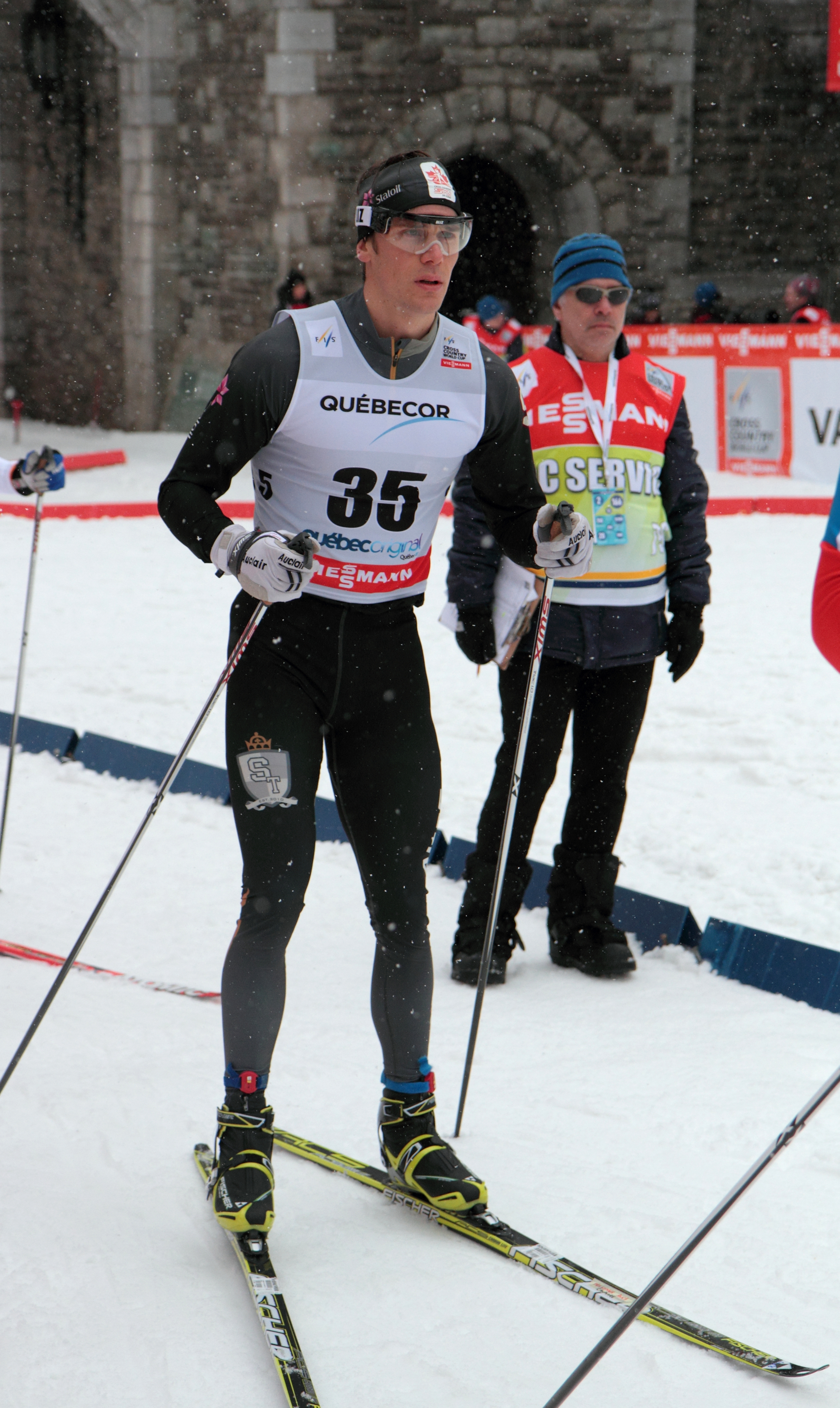 Philip Widmer, FIS Cross-Country World Cup, 2012, Quebec, Canada